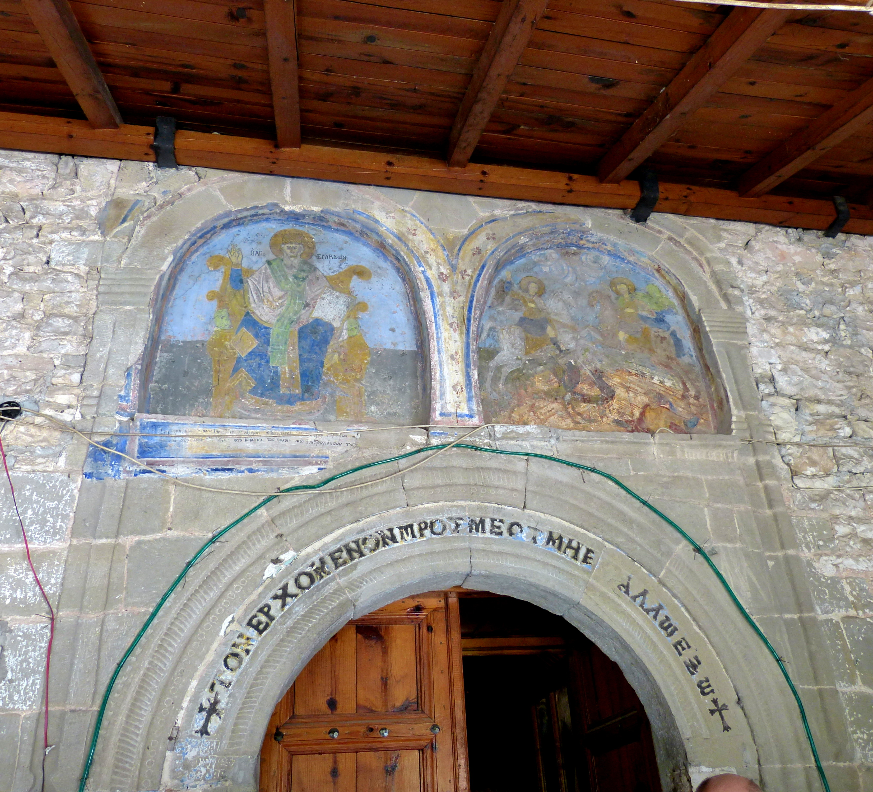 Berat (Albania). Borough of Gorica - Church of Saint Spyridon ( 18th century ): Church portal with Greek inscription and frescos of Saint Spyridon and two unidentified saints.